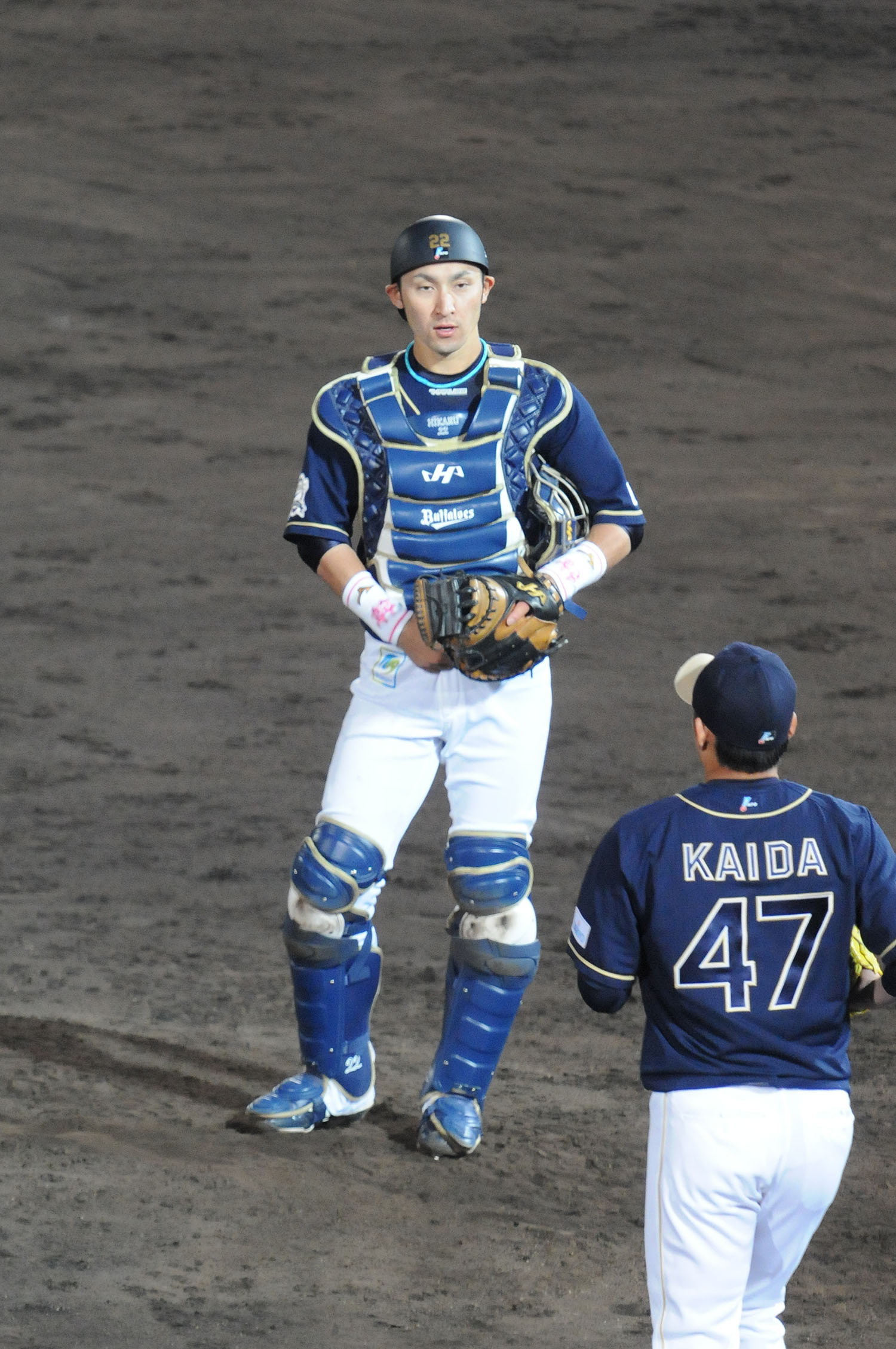 Hikaru Ito, catcher of the Orix Buffaloes, at Akita Prefectural Baseball Stadium